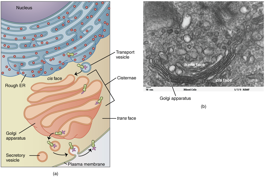 Caption:(a) The Golgi apparatus manipulates products from the rough ER, and also produces new organelles called lysosomes. Proteins and other products of the ER are sent to the Golgi apparatus, which organizes, modifies, packages, and tags them. Some of these products are transported to other areas of the cell and some are exported from the cell through exocytosis. Enzymatic proteins are packaged as new lysosomes (or packaged and sent for fusion with existing lysosomes). (b) An electron micrograph of the Golgi apparatus. URL: Version 8.25 from the Textbook OpenStax Anatomy and Physiology Published May 18, 2016